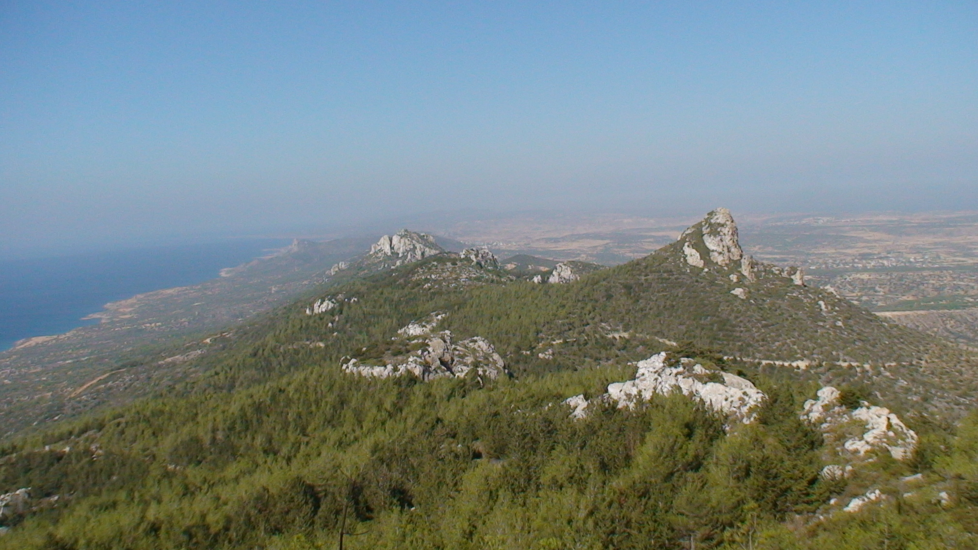 A view of the north plains of Cyprus, Karpaz Peninsula and Beşparmak Mountain Range from Kantara Castle in Northern Cyprus.